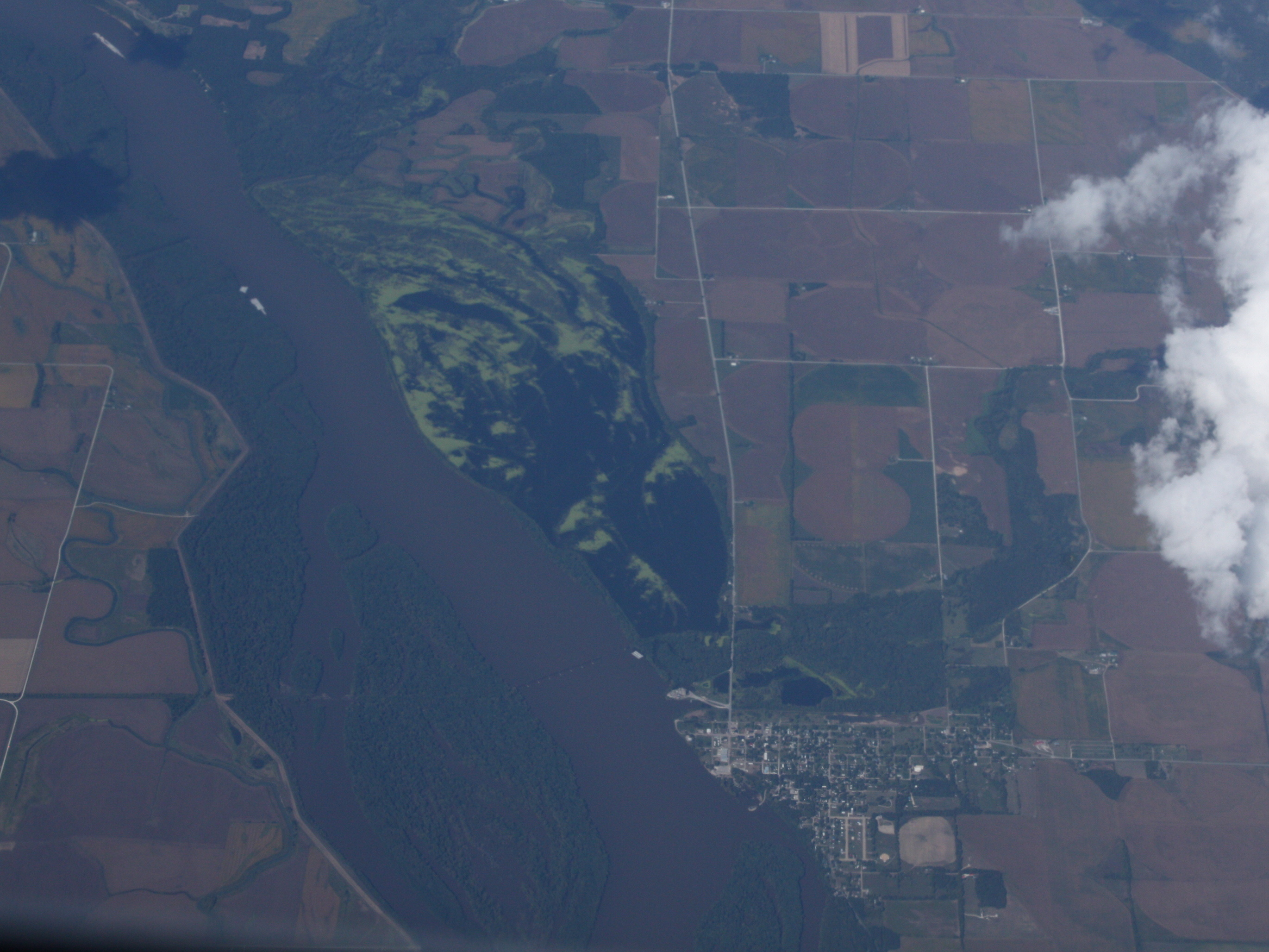 Oblique air photo of Mark Twain Wildlife Refuge, Keithsburg Division (top half), and Keithsburg, Illinois (bottom), along the Mississippi River. Facing approximately north, in September 2018.